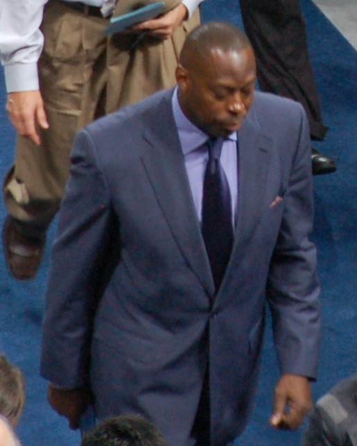 Dallas Mavericks coaches and staff leave an exhibition game against FC Barcelona Basquet. Back to front: Darrell Armstrong, Robert Hackett, Don Kalkstein, and Tony Brown